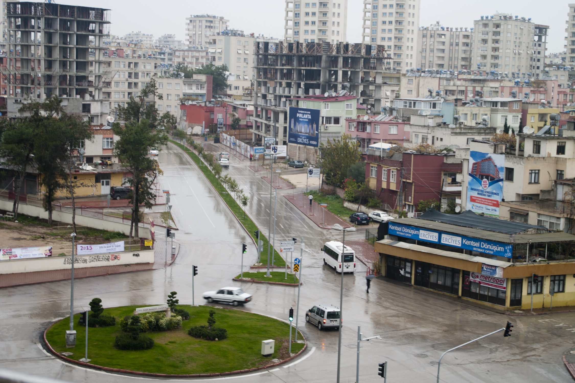 A view of Hacı Ömer Sabancı Caddesi, Adana on 01.01.2015.